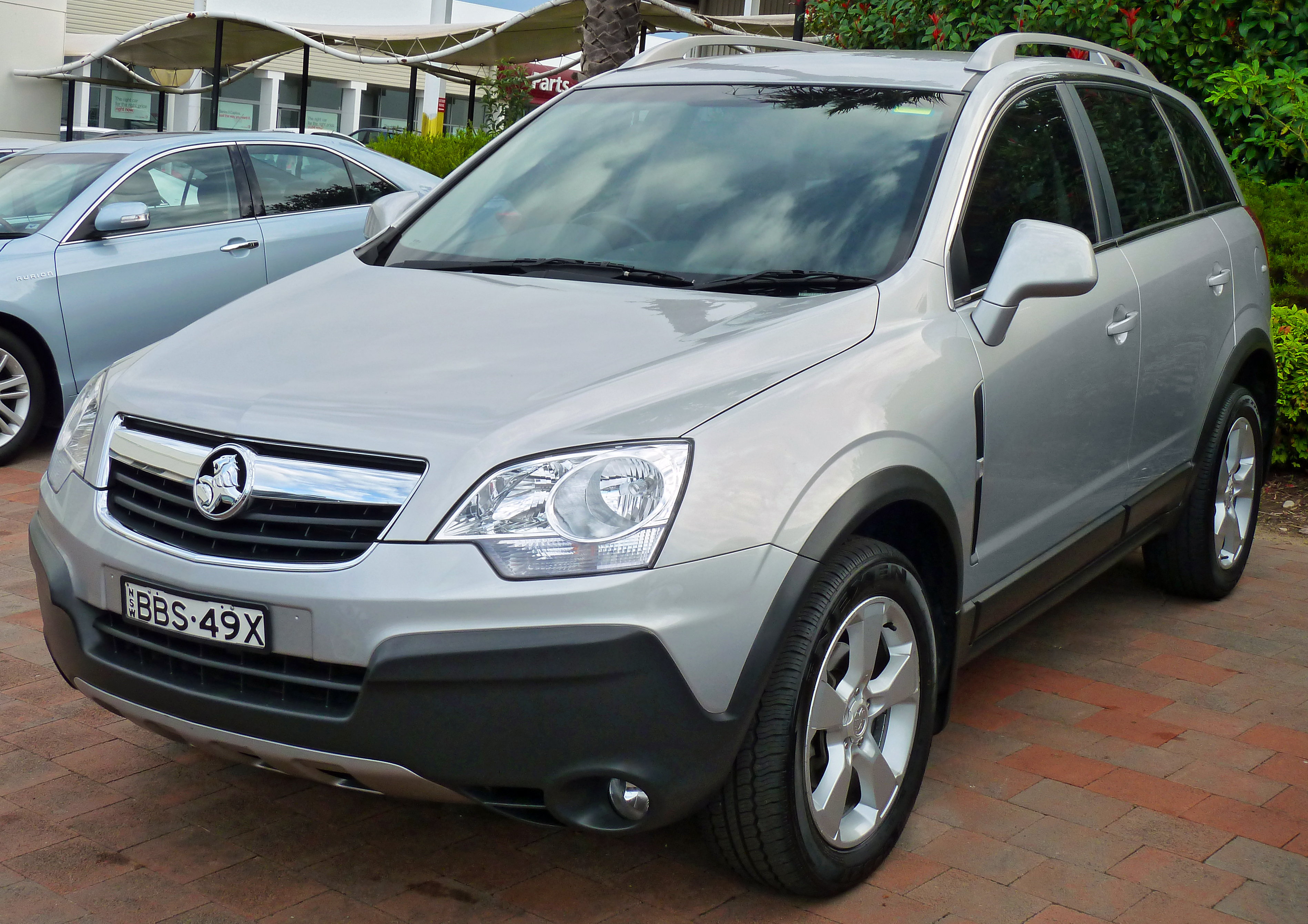 2007 Holden Captiva (CG) MaXX wagon. Photographed in Kirrawee, New South Wales, Australia.